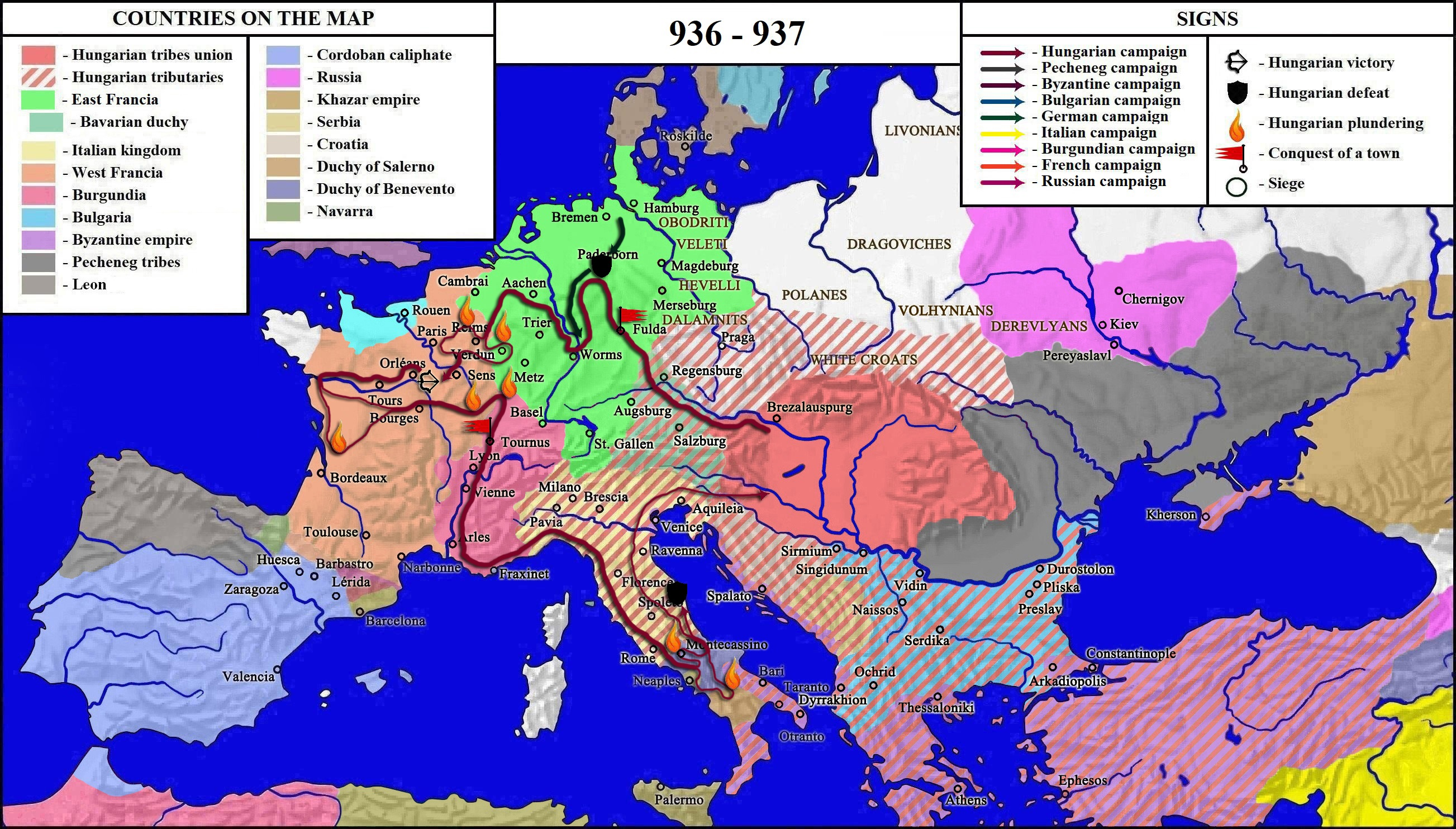 The Hungarian campaign in Europe from 936-937. the longest Hungarian military campaign in Europe